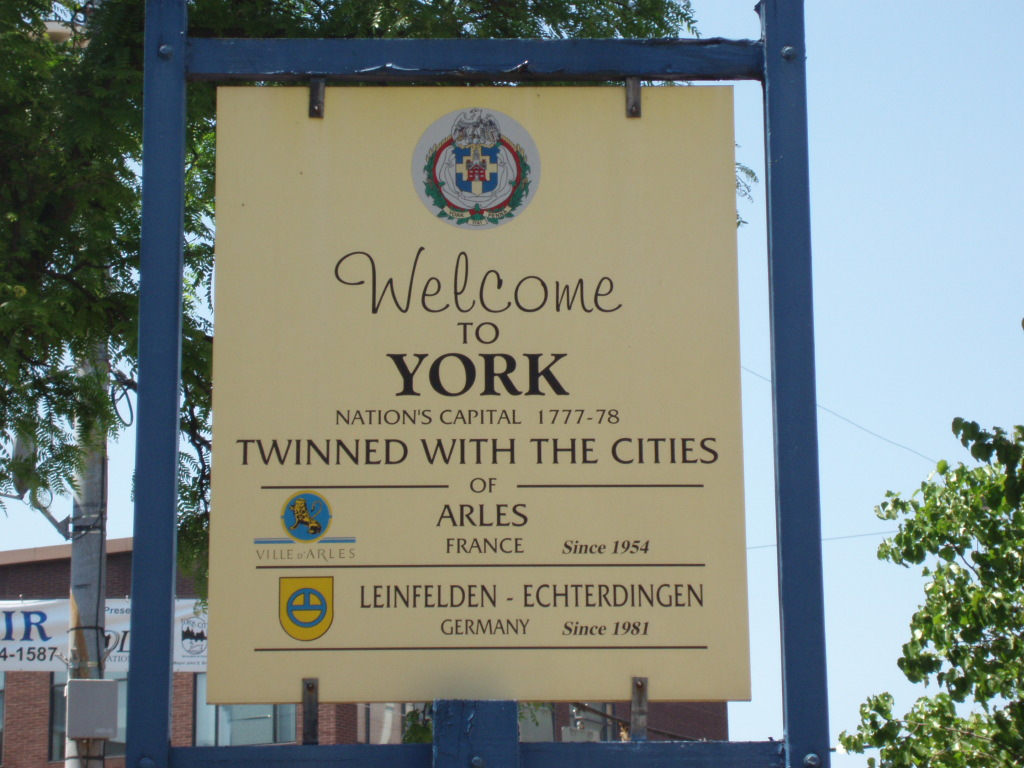 Welcome sign in York, Pennsylvania, United States, near the southeastern corner of the intersection of E. Market and S. George Streets. (later moved near the NW corner of the intersection of N. Pershing Avenue and E. Market Streets)